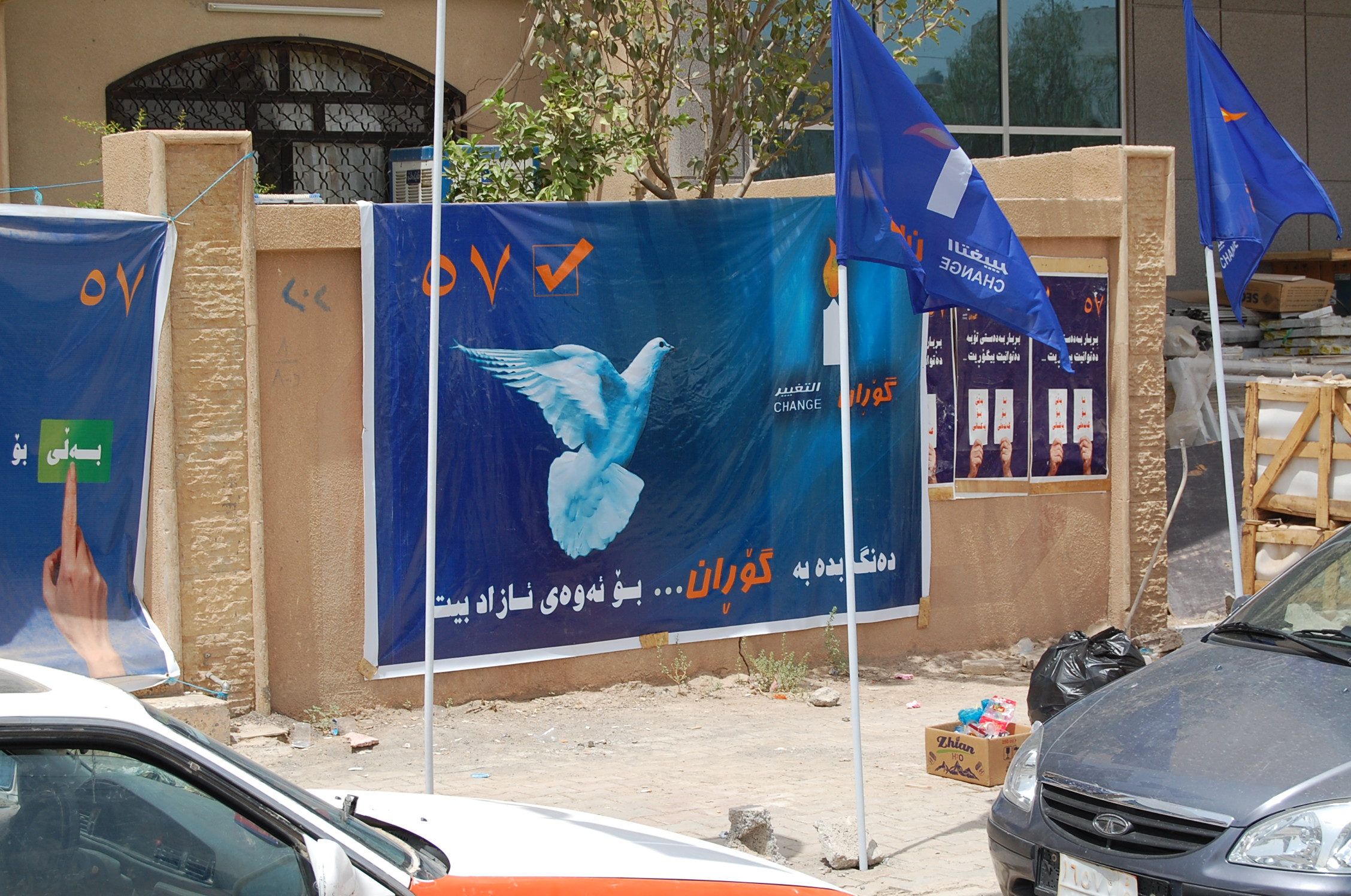 Campaign headquarters of Gorran movement in Arbil, 2009.